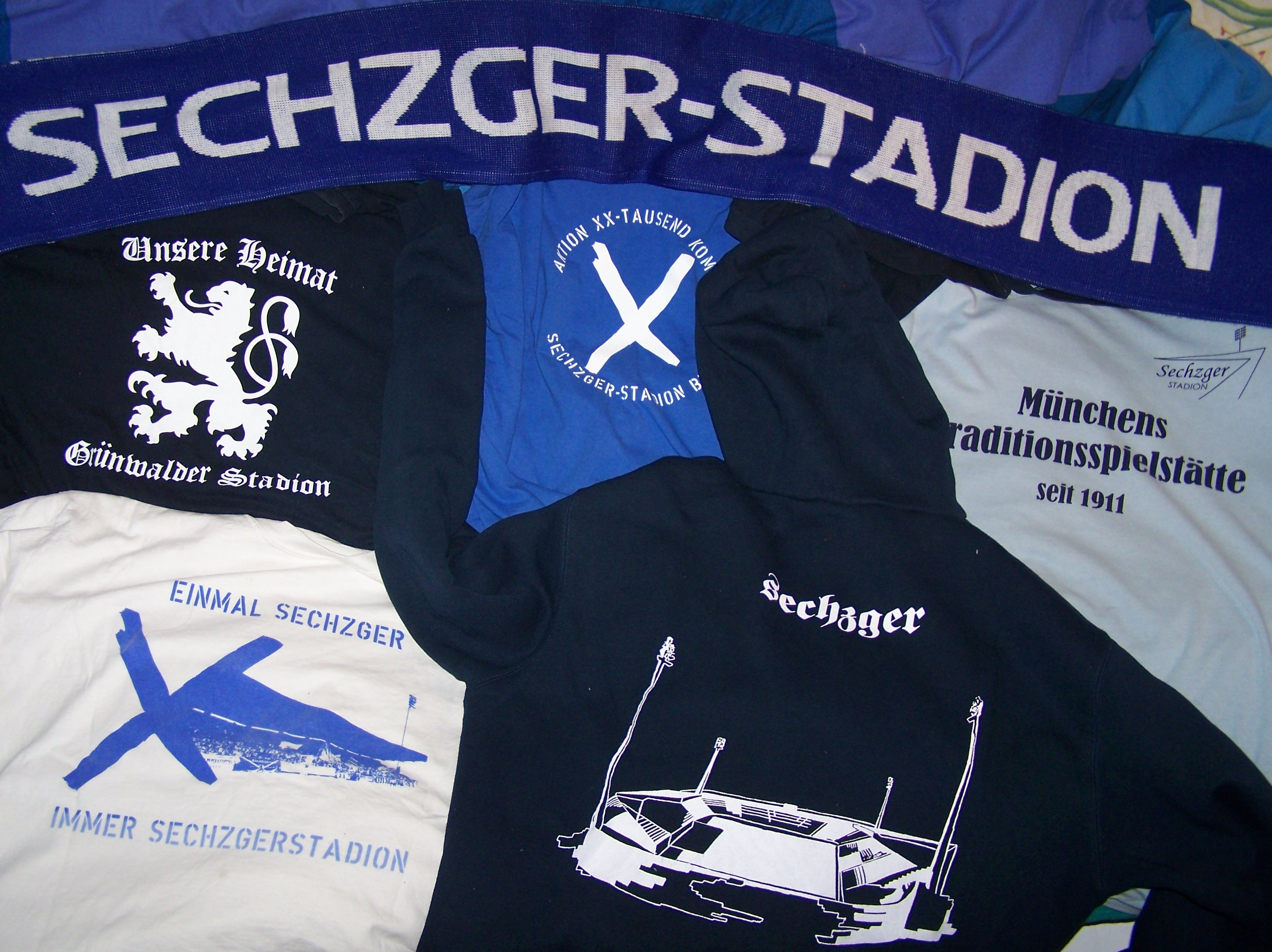 Some pieces of the Sechzgerstadionkollektion